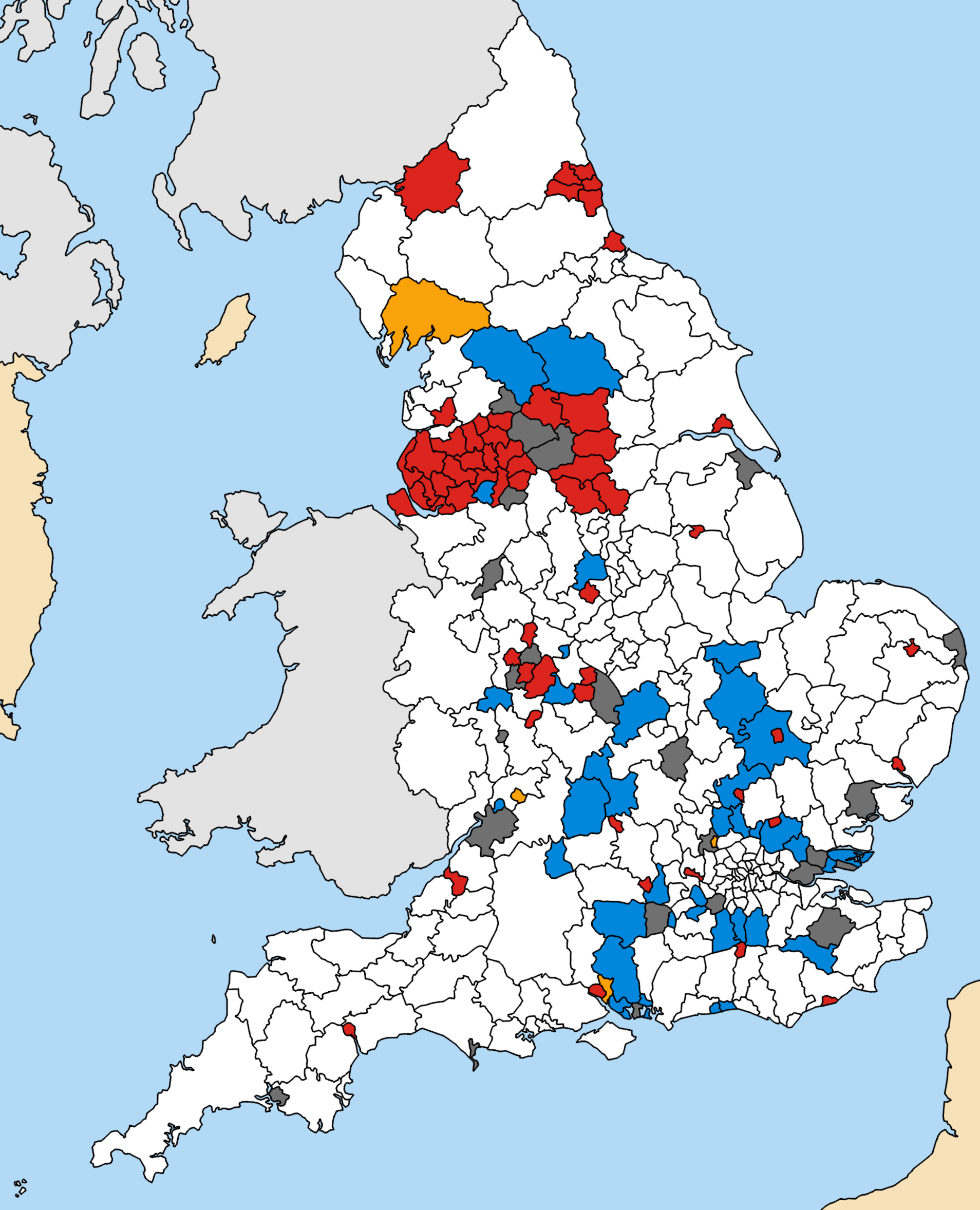 Results of the 2016 local elections in England Colours: Conservative Labour Liberal Democrat No Overall Control No election in 2016 Yellow/black hatched indicates results not yet declared.